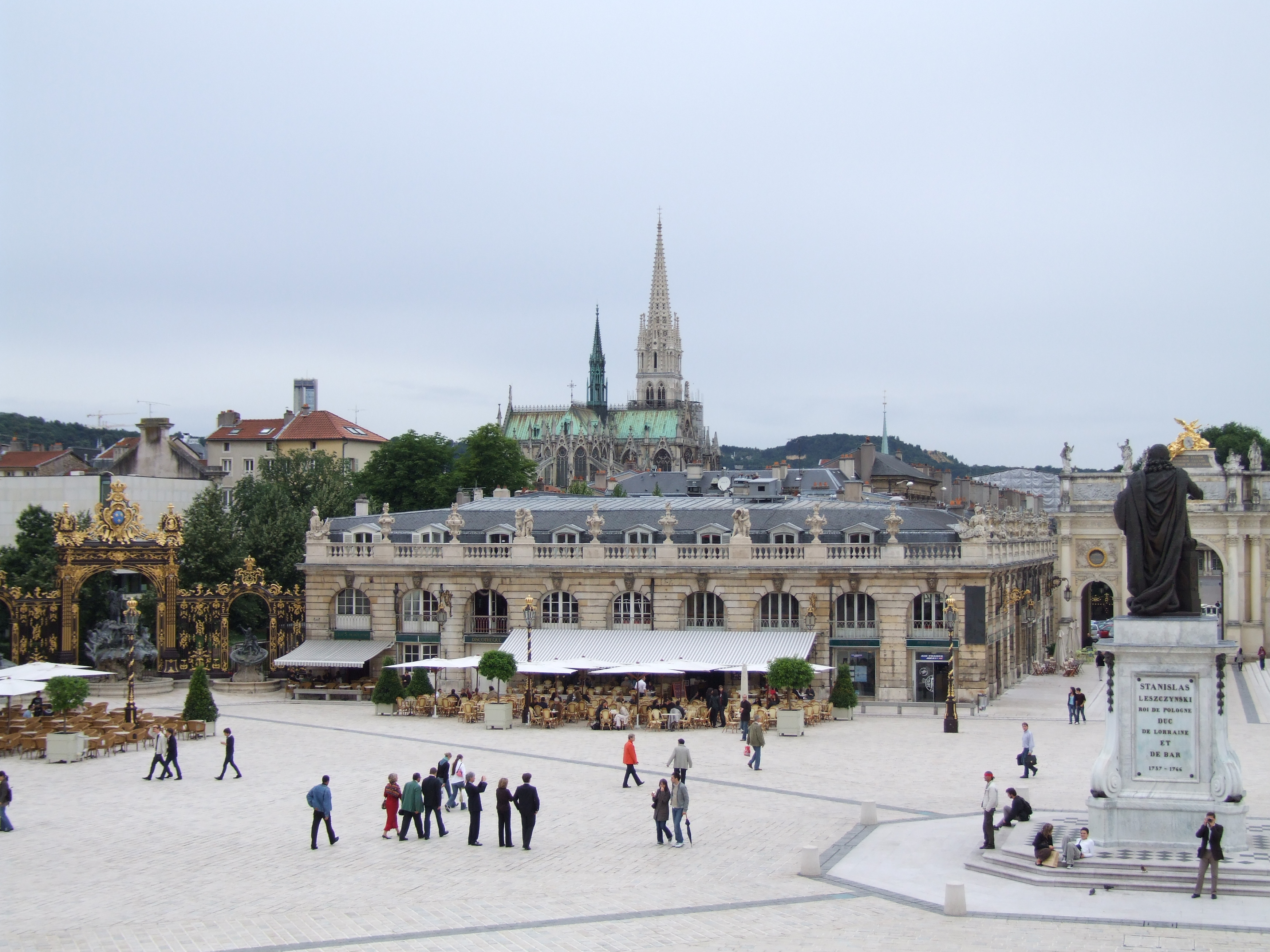 Place Stanislas, Nancy, Lorraine, France, taken from the great lounges of the town hall.